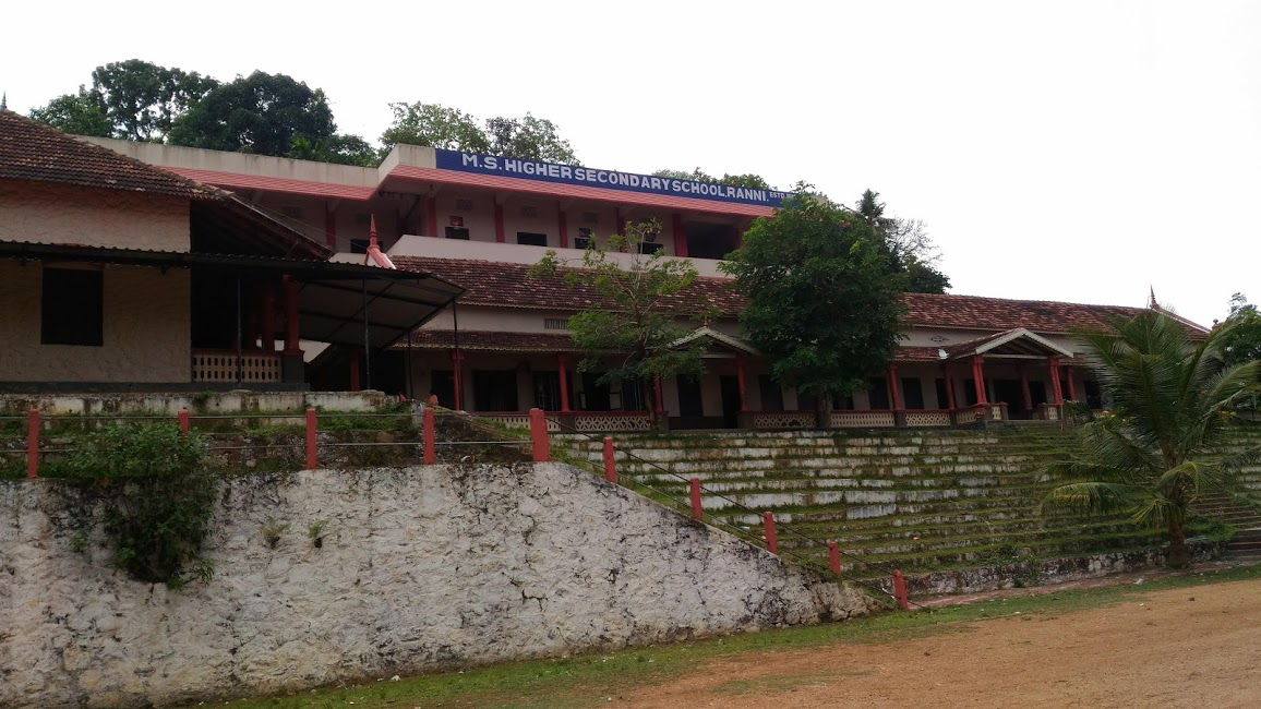 MSHSS Ranni (Mor Sevarious Higher Secondary School Ranni) is one of the leading Aided Schools in Ranni situated on the bank of River Pampa in Perumpuzha side of Ranni town in Pathanamthitta, Kerala India.